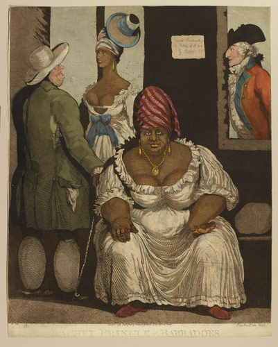 Rachel Pringle-Polgreen was the owner of a famous hotel in Bridgetown this is a picture by Thomas Rowlanson who died in 1827